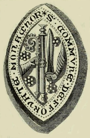 Medieval seal of the Abbey Foregate parish, then separate from the town of Shrewsbury, England.